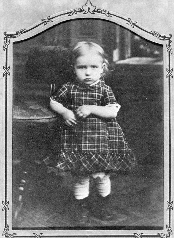 Johannah Josephine Jensen (Hannah Jensen Kempfer) in Stavanger, Norway (early 1880s).